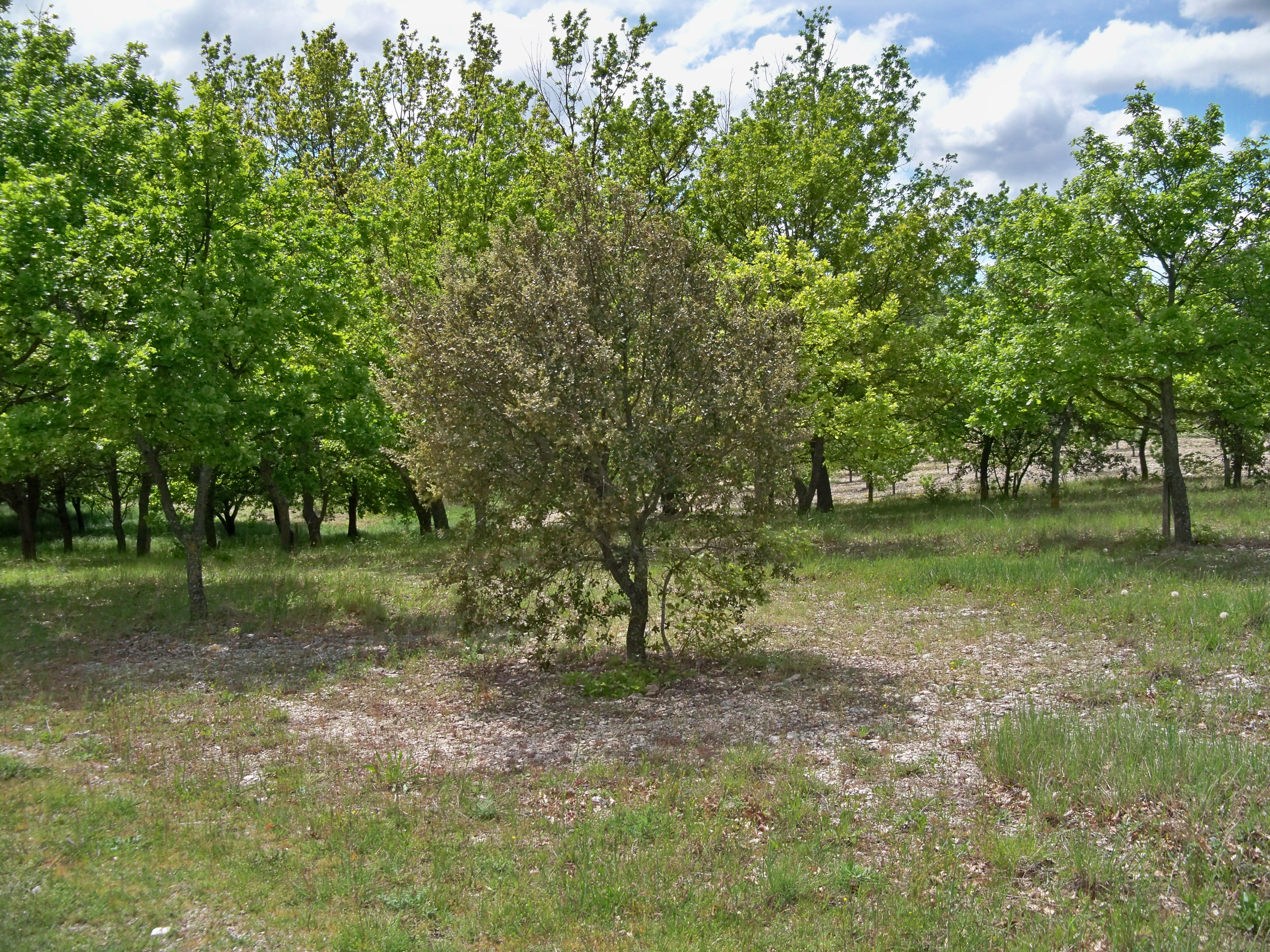 Truffle in Beaumont du Ventoux (84)